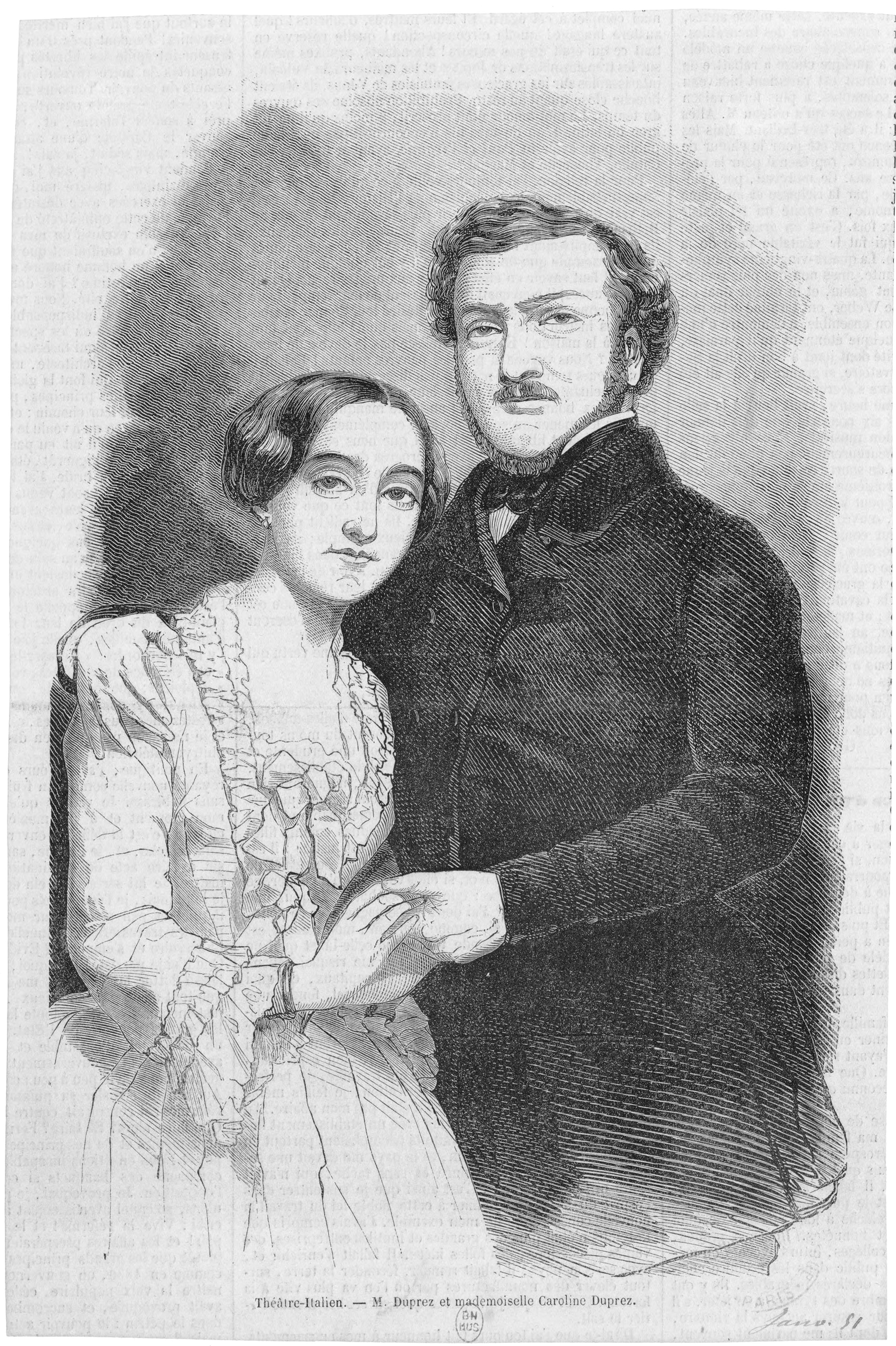 Press illustration of the French tenor Gilbert Duprez with his soprano daughter Caroline Duprez in 1851, when they were appearing at the Théâtre-Italien in Paris